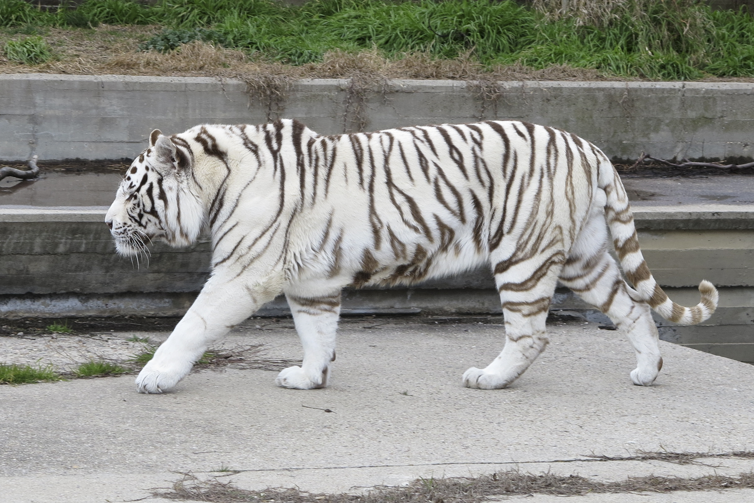 Panthera tigris tigris (Bengal tiger) in the Zoo de Madrid, Spain.